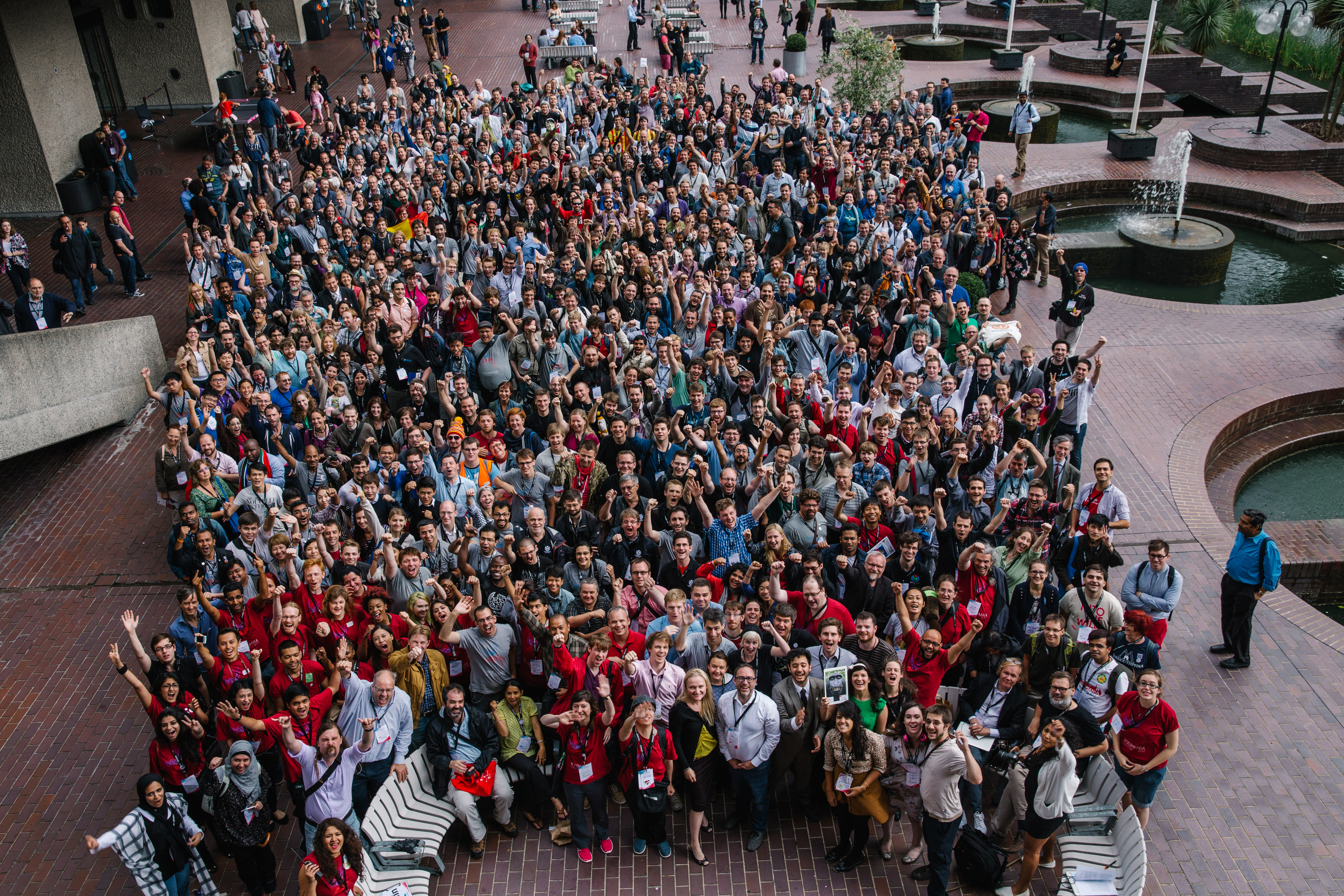 Photographs taken by Adam Novak